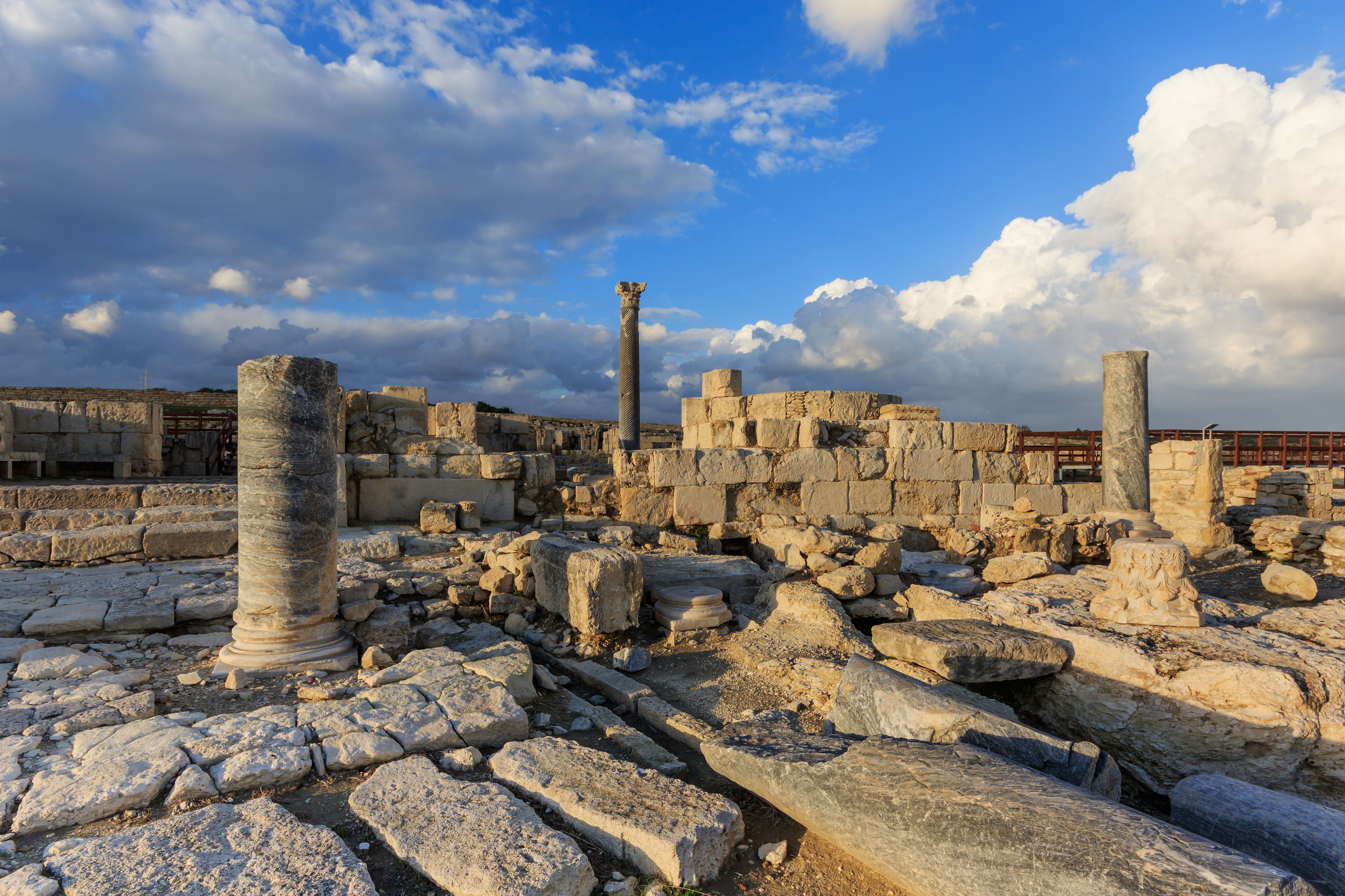 Ancient town of Kourion near Limassol, Cyprus. Agora.